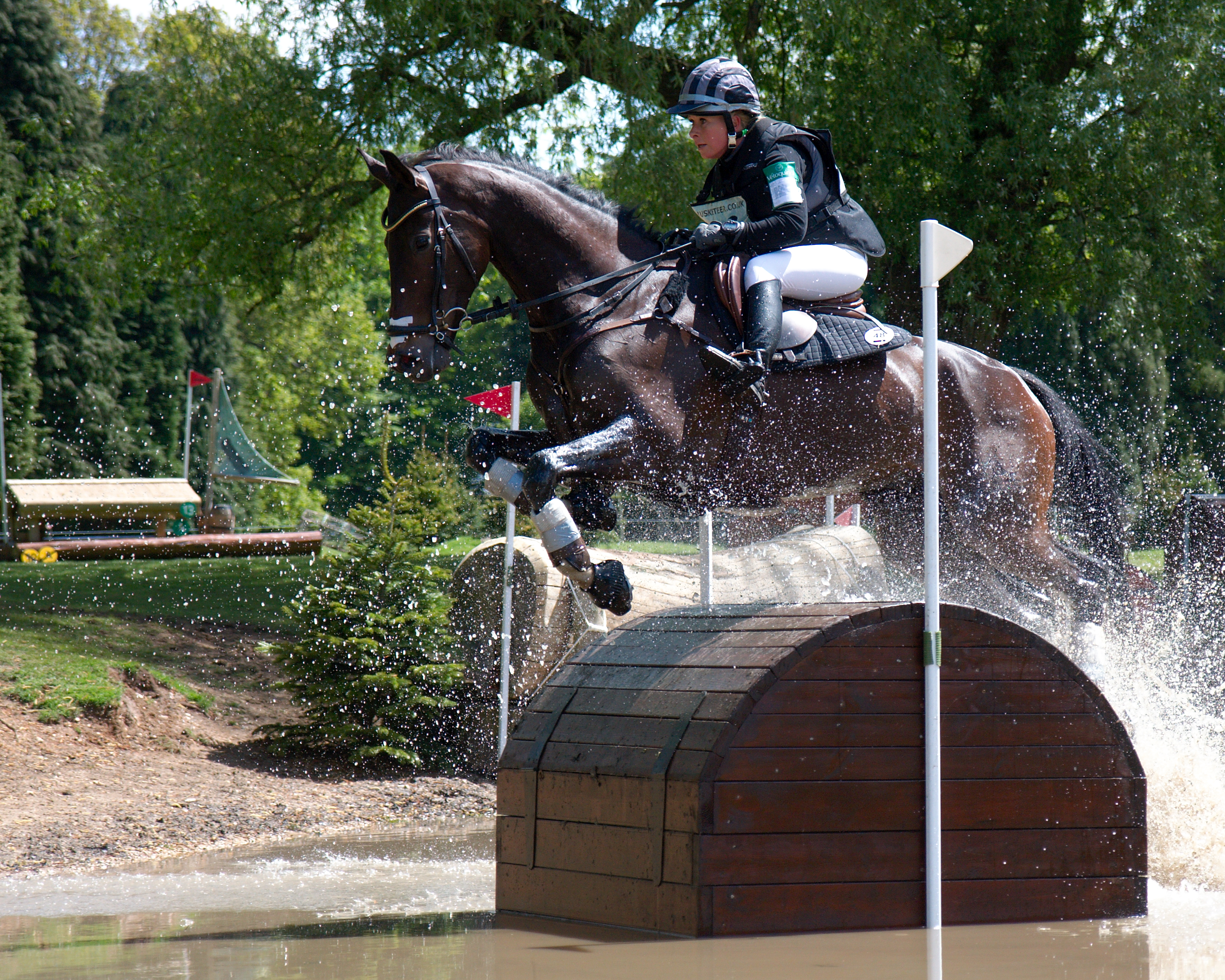 Bettina Hoy and Designer 10 (Westphalian[1]) at the Treasure Chests during the cross-country phase of the CIC*** competition at Houghton International Horse Trials 2013.